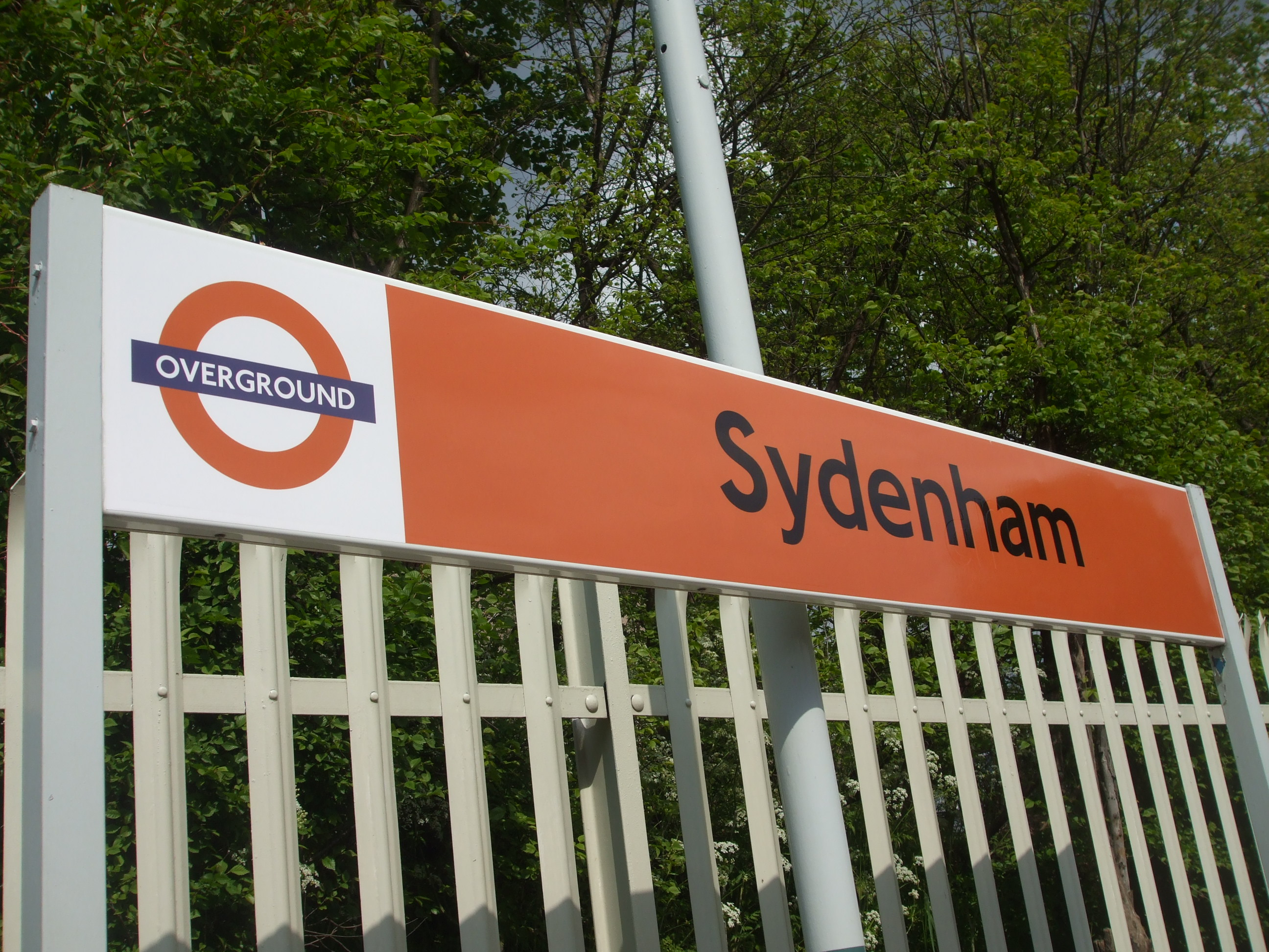 Sydenham station platform signage, in new Overground colours (photo May 2010, a few days prior to East London Line services commencing at the station). Replaced with circular roundels by 2012.